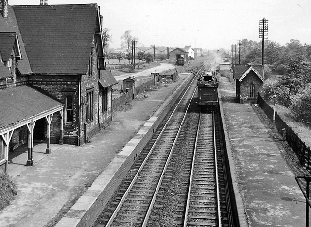 Barton & Walton Station View NE, towards Burton-on-Trent and Derby; Derby - Birmingham main line, station closed to passengers 5/8/58, to Goods 6/7/64, but the line remains the trunk route NE - SW. (The locomotive approaching on the Down line is an ex-LNER 2-8-0, unusual at this location).